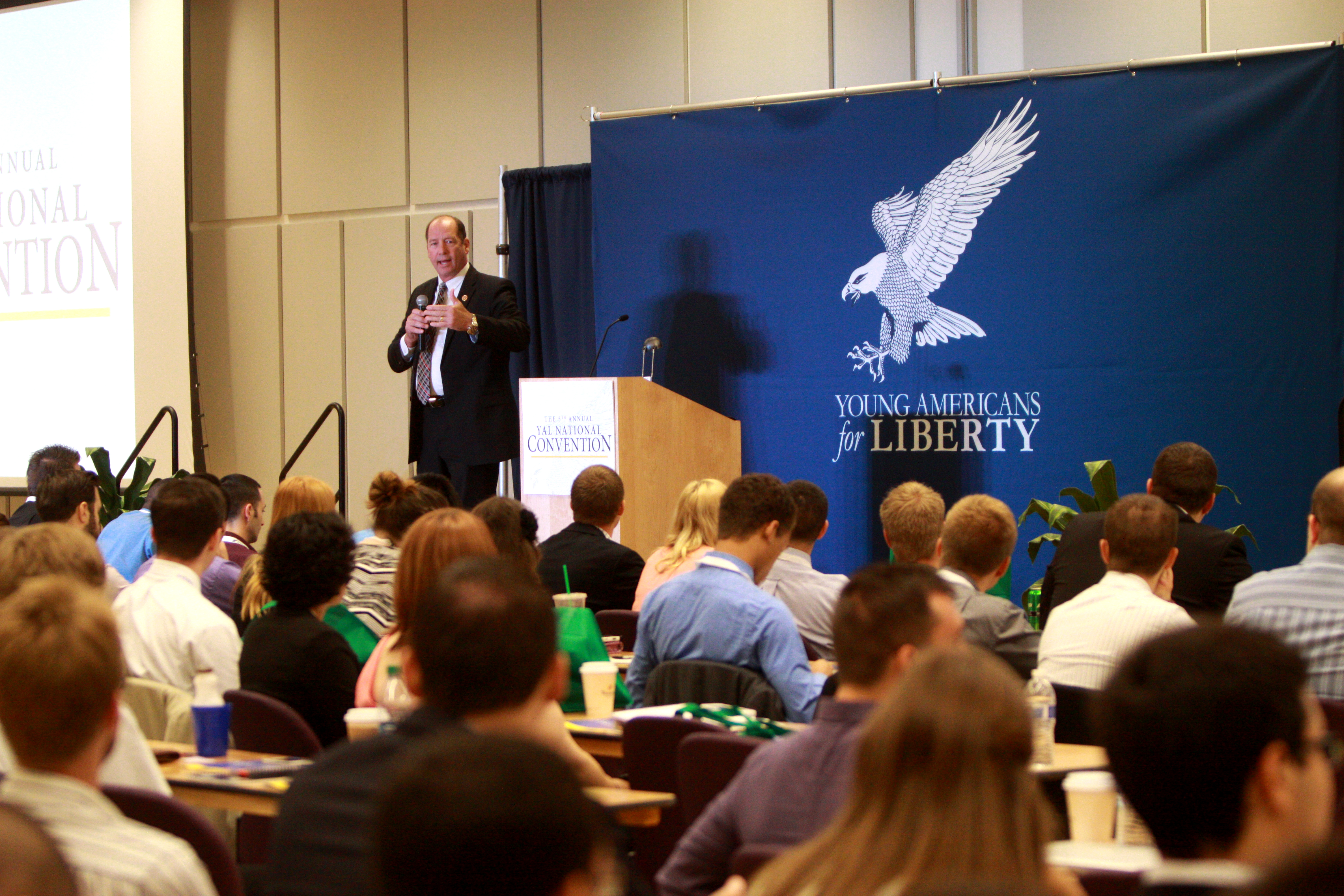 In Arlington, Virginia